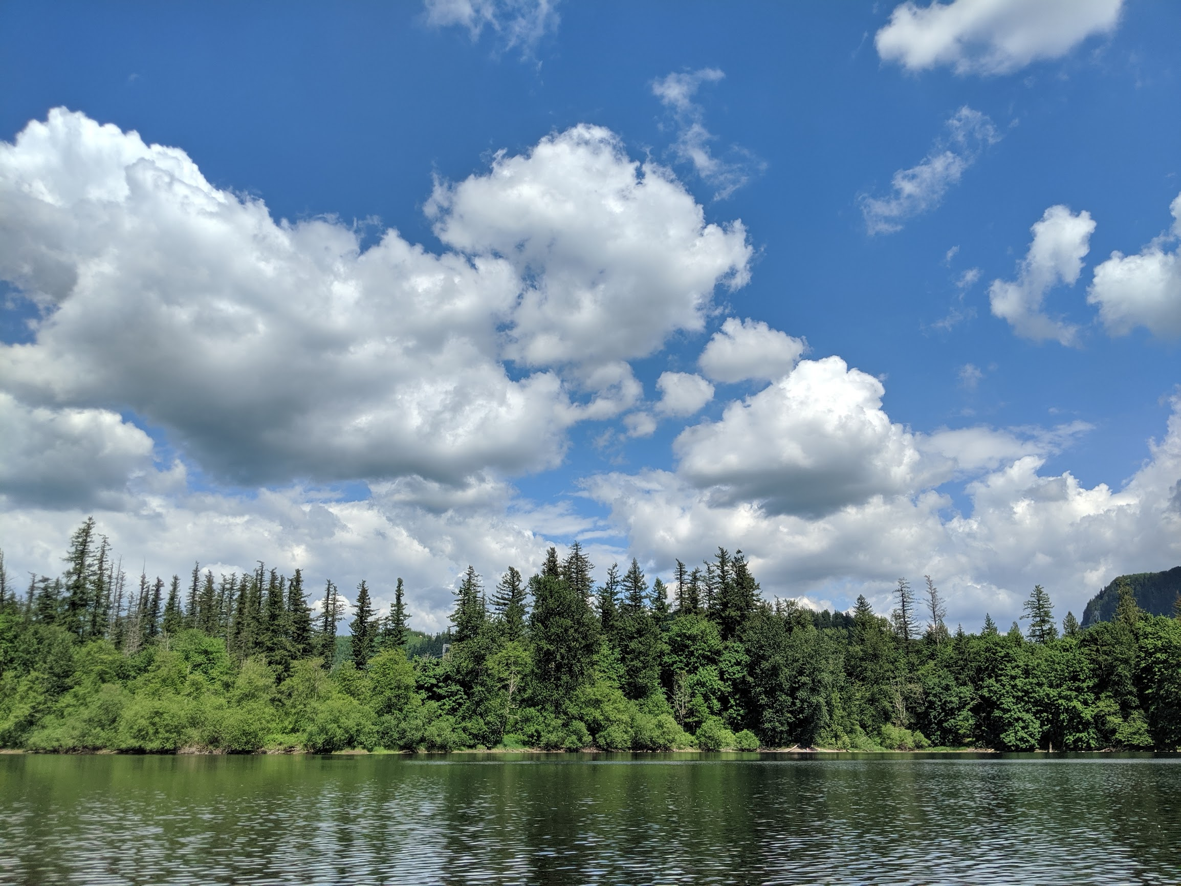 Nolte State Park in 2019